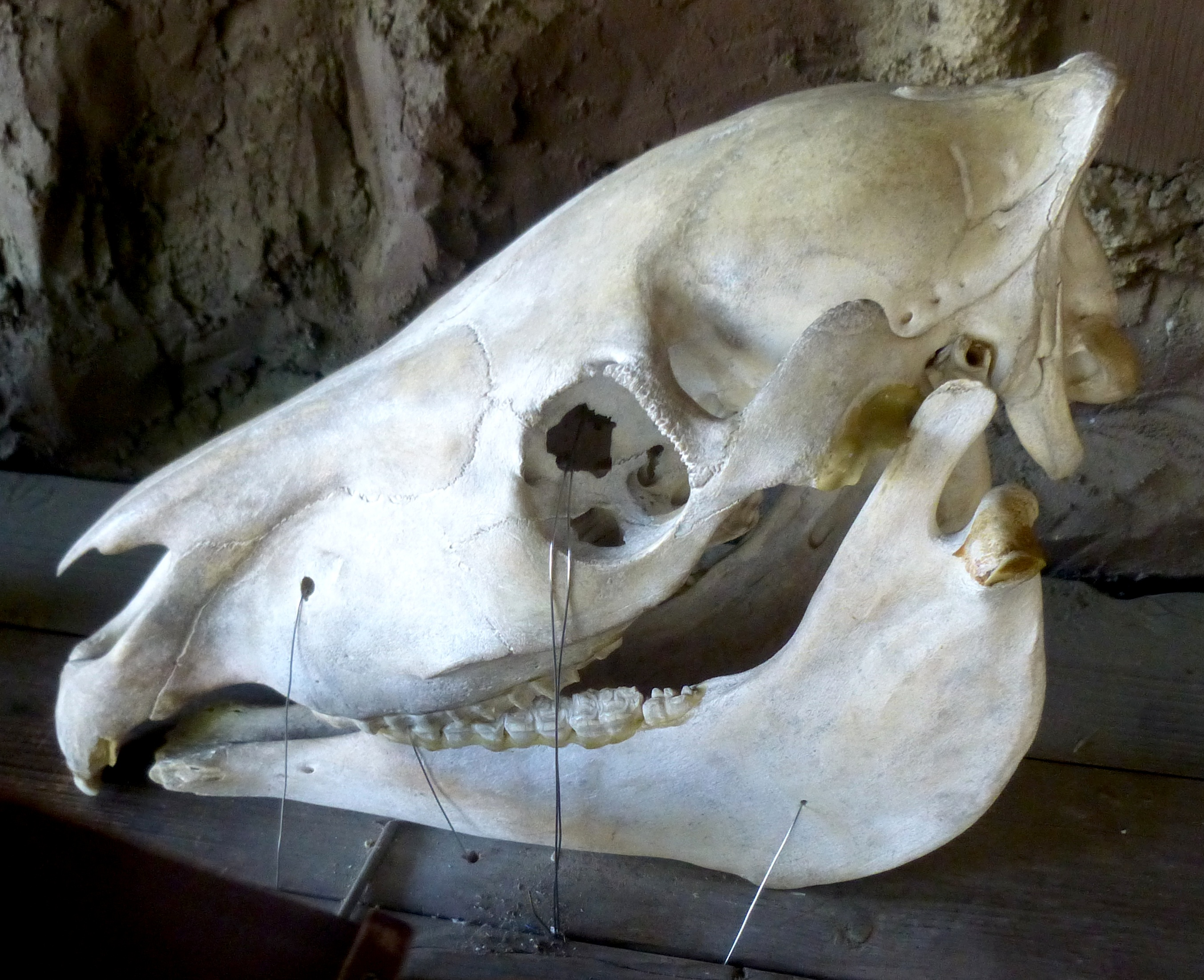 Grant's Zebra skull